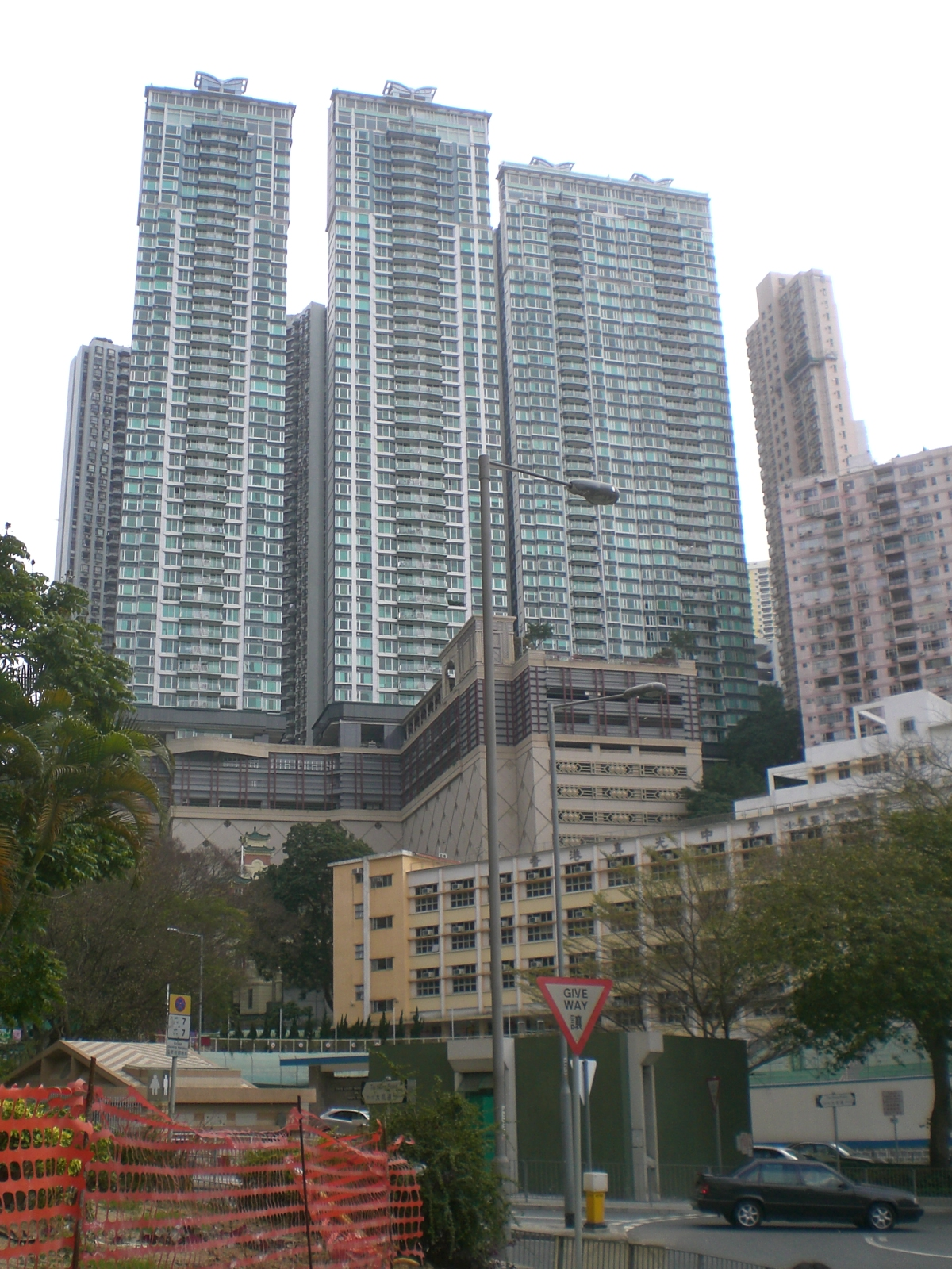 大坑 渣甸山名門